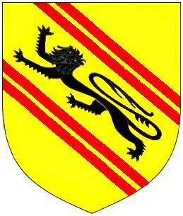 Armorial of de Tracy, feudal barons of Barnstaple: Or, a lion passant sable between two bends gemelles gules. Source: Robson, Thomas, The British Herald.